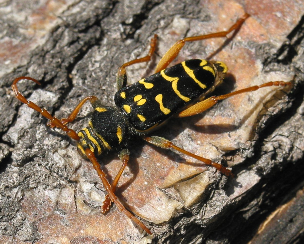 Plagionotus arcuatus, near Breitenbrunn (Burgenland, Austria)